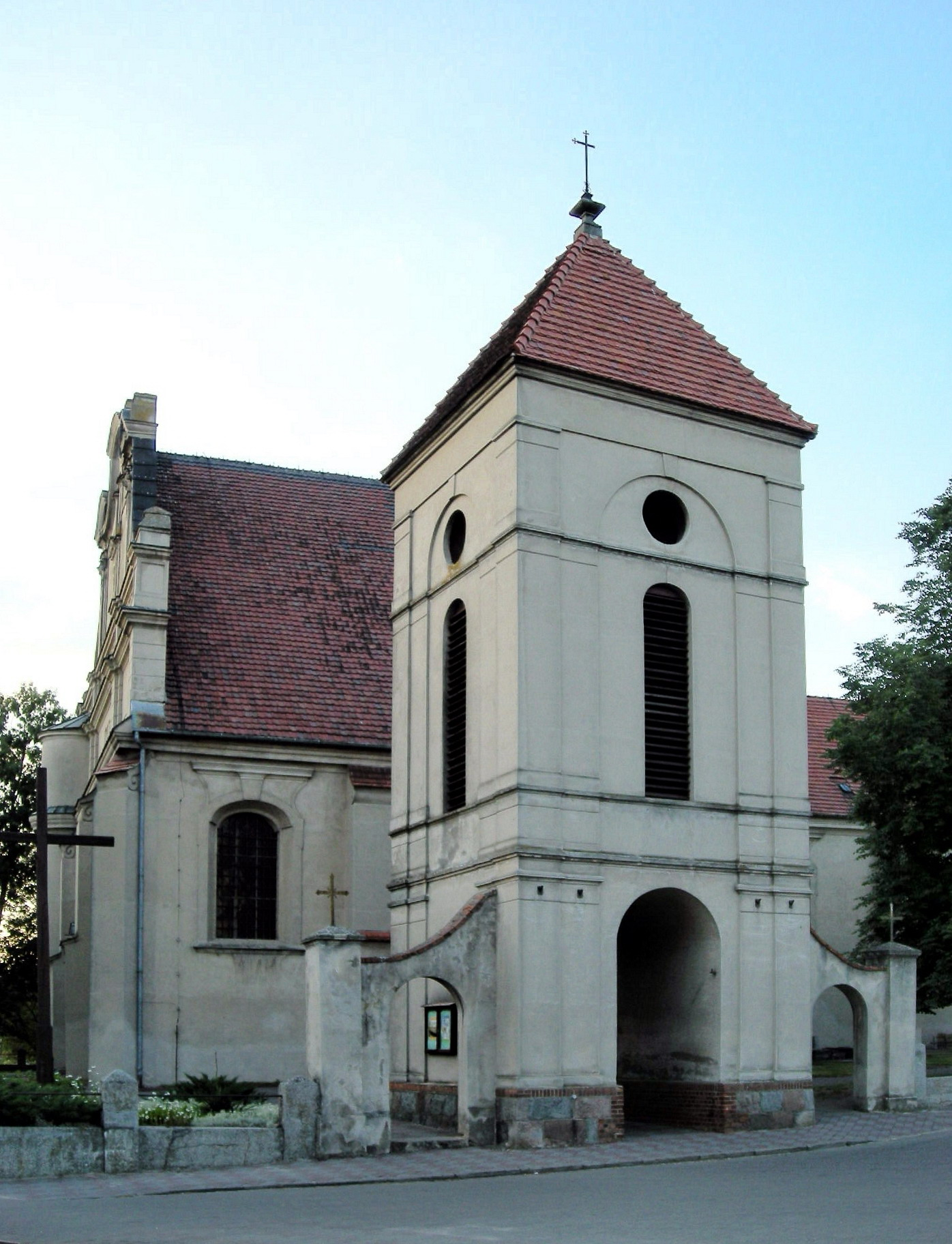 The church in Margonin, Poland.